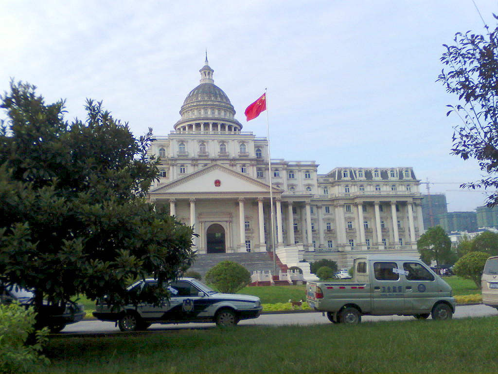 The "White House" built by Zhang Zhi'an in Yingquan district, Fuyang city, Anhui province, China. Much of the district's revenue was spent to build this replica of the United States Capitol building. Fuyang's "White House" has since become a symbol of corruption by local officials.